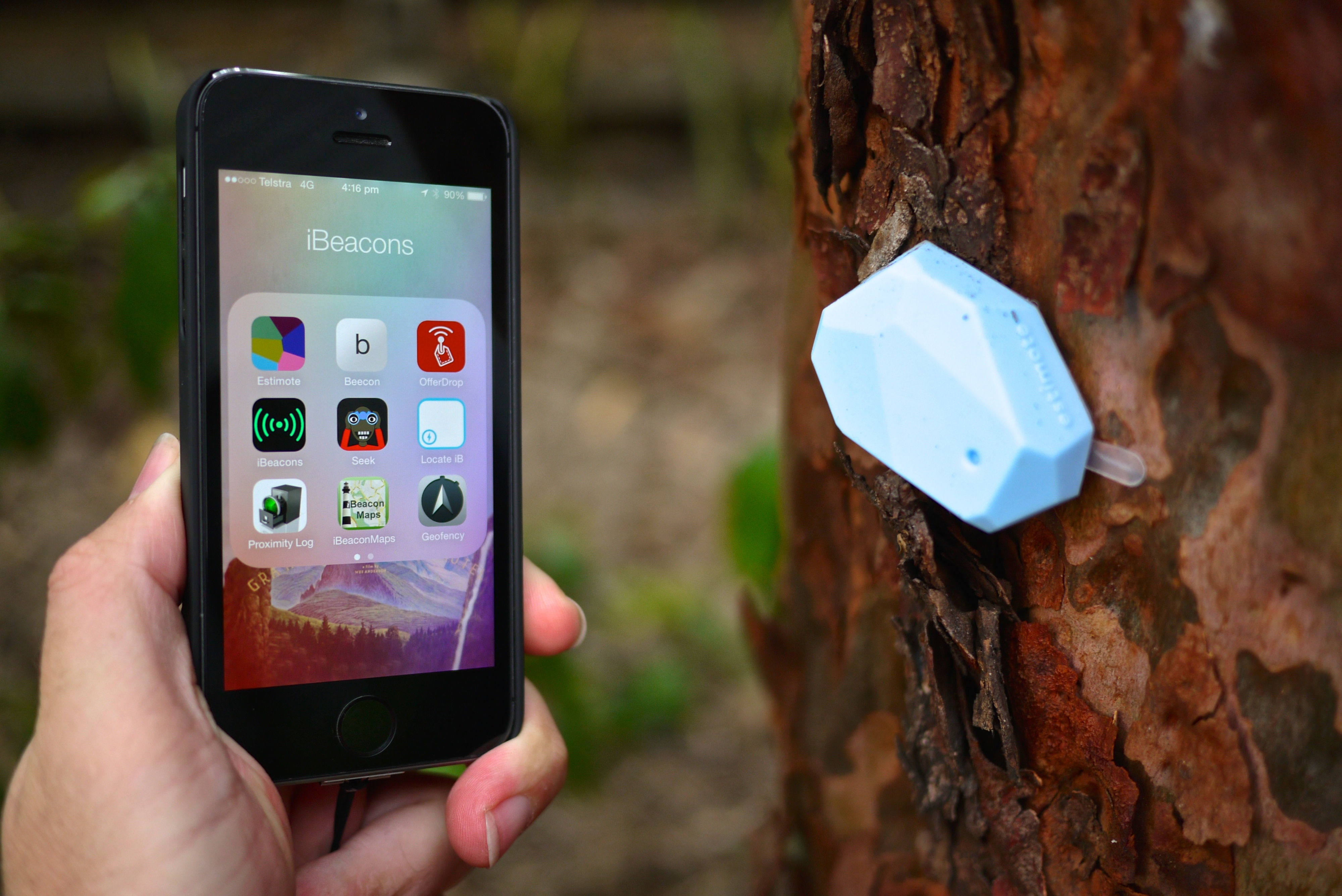 beacon dispositive